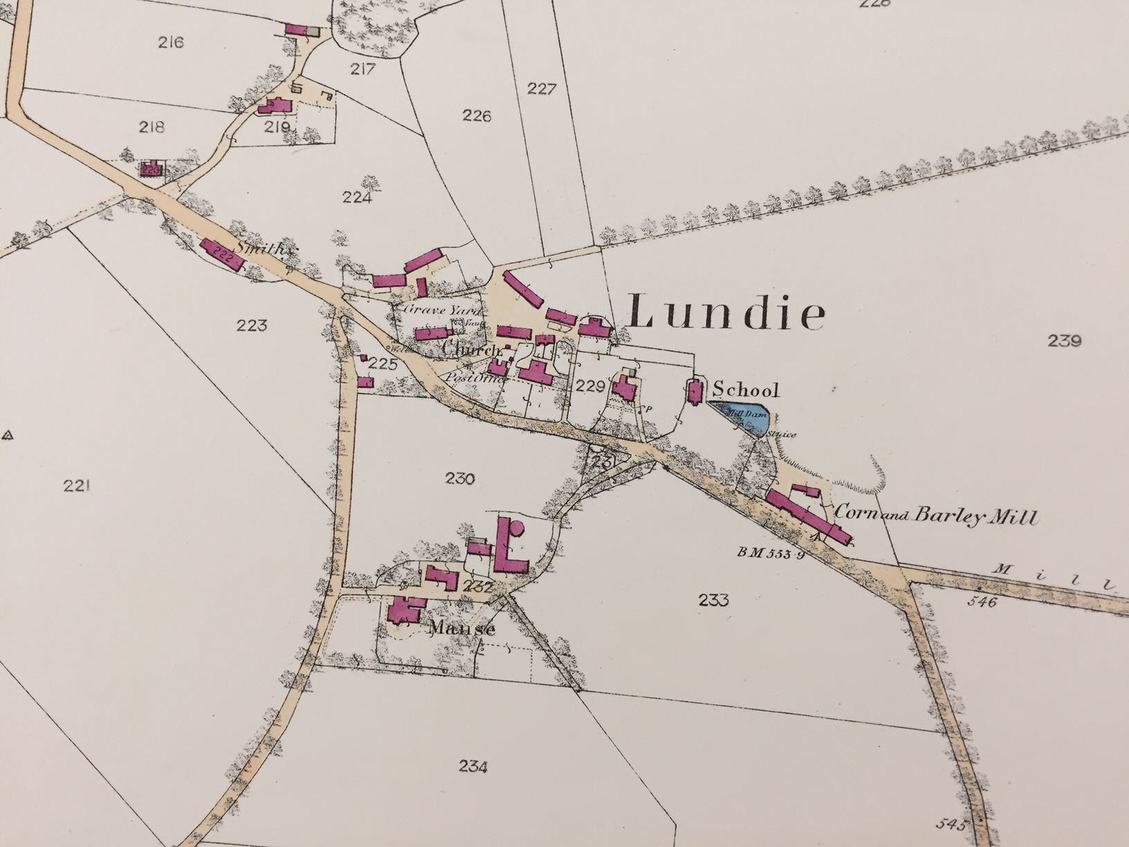 Ordnance Plan of the Parish of Lundie (1863).Scale: 25.344 inches to one mile. Grid ref: NO 2901 3662 • X/Y co-ods: 329016, 736620 • Lat/Log: 56.51,-3.15. Height: 178.2m. The area is known for its beautiful walks around the local hills of Lundie Craigs.